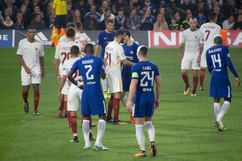 Chelsea VS. Roma 18 October 2017